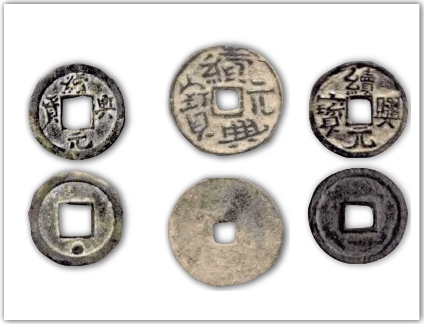 Coin xu-xing yuan-bao minted during Qara Khitai